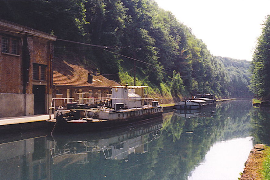 Toueur (in front) and péniche (behinde) on the Canal de Saint-Quentin, France